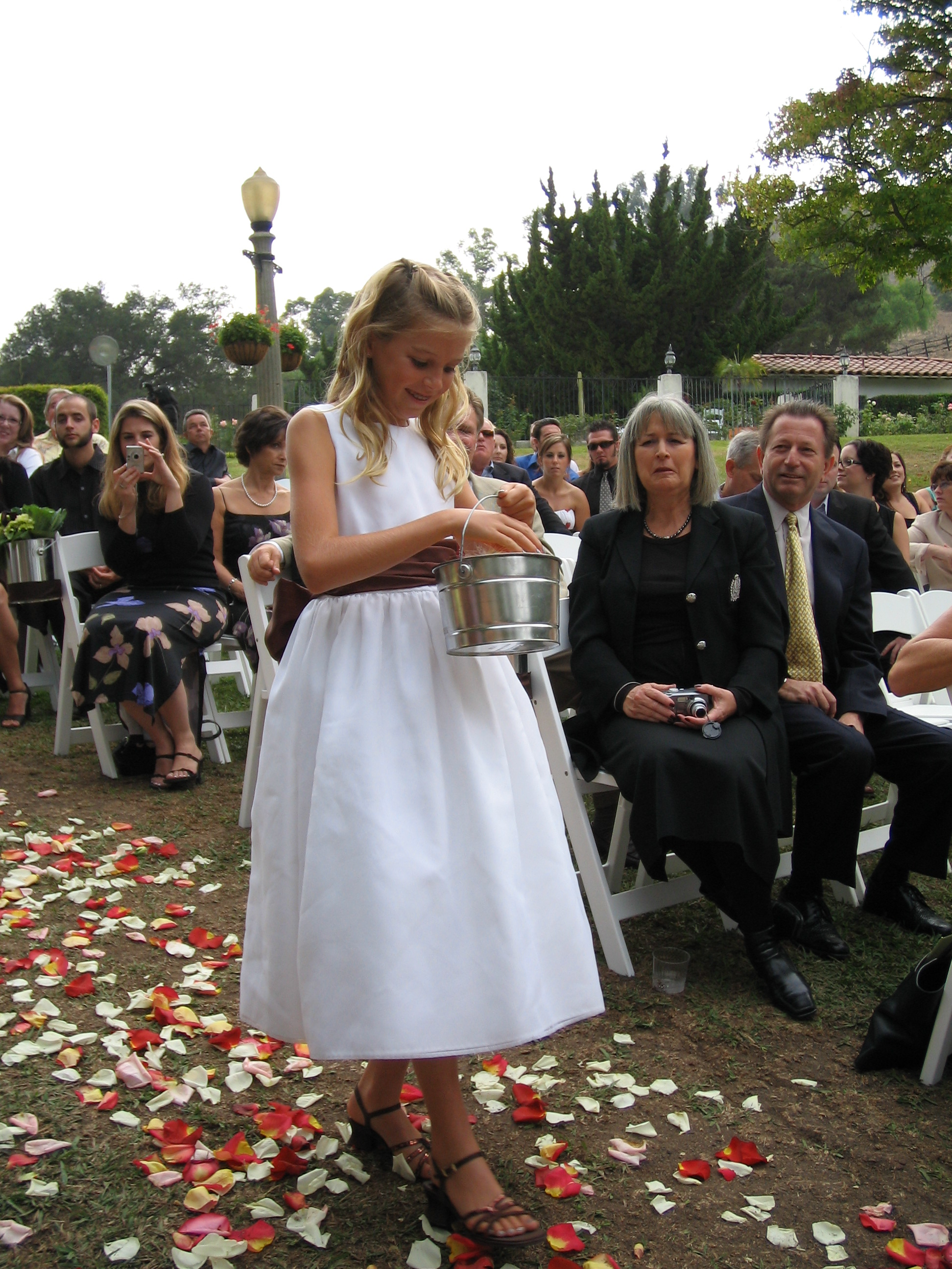 Flower girl at Kellie and Shawn's Wedding